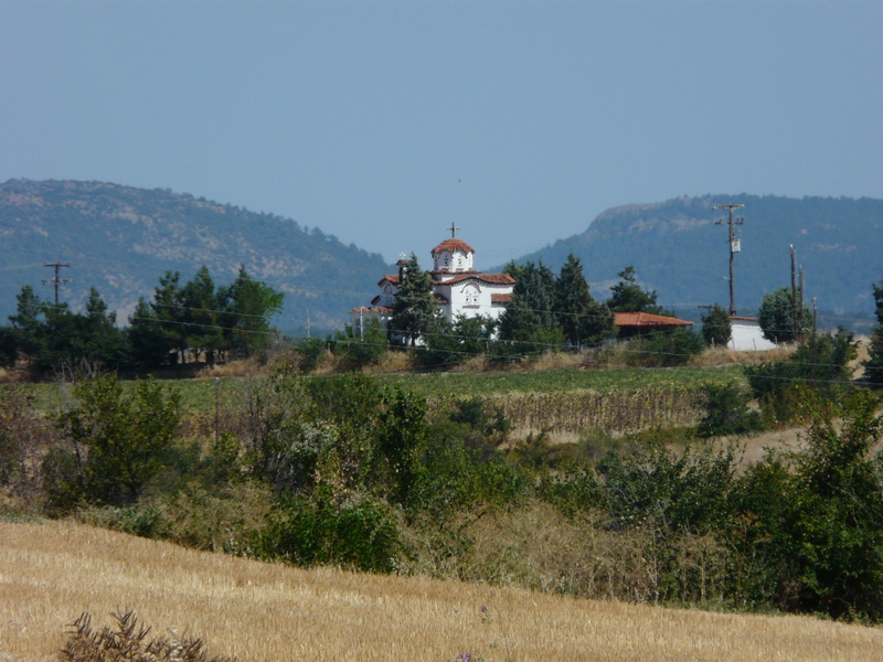 cloister nort of Tavri